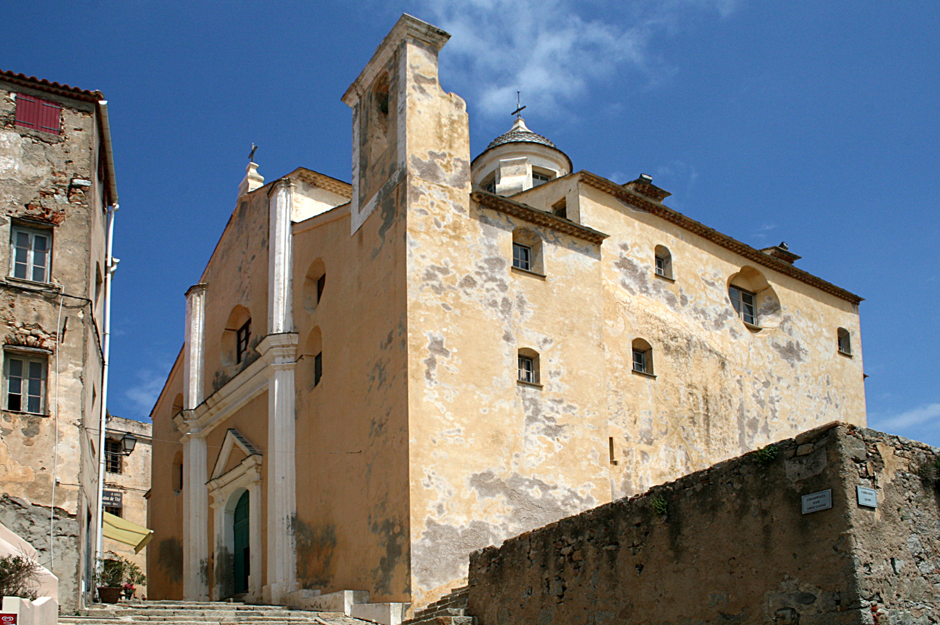 Calvi (Haute-Corse) - Calvi Cathedral (Pro-cathédrale Saint-Jean-Baptiste de Calvi).